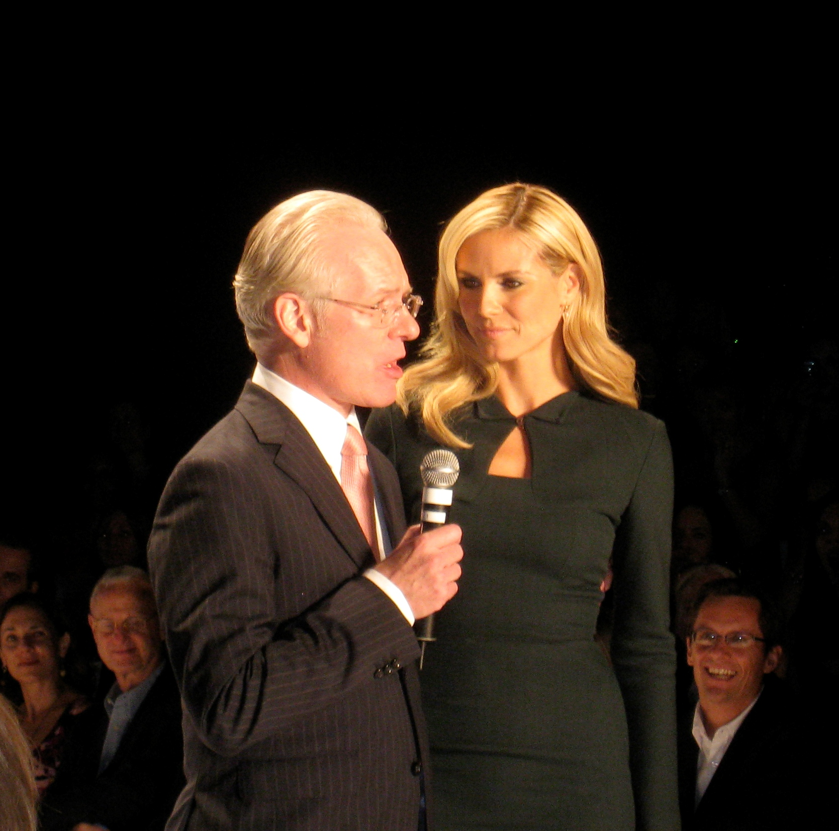 Tim Gunn and Heidi Klum.